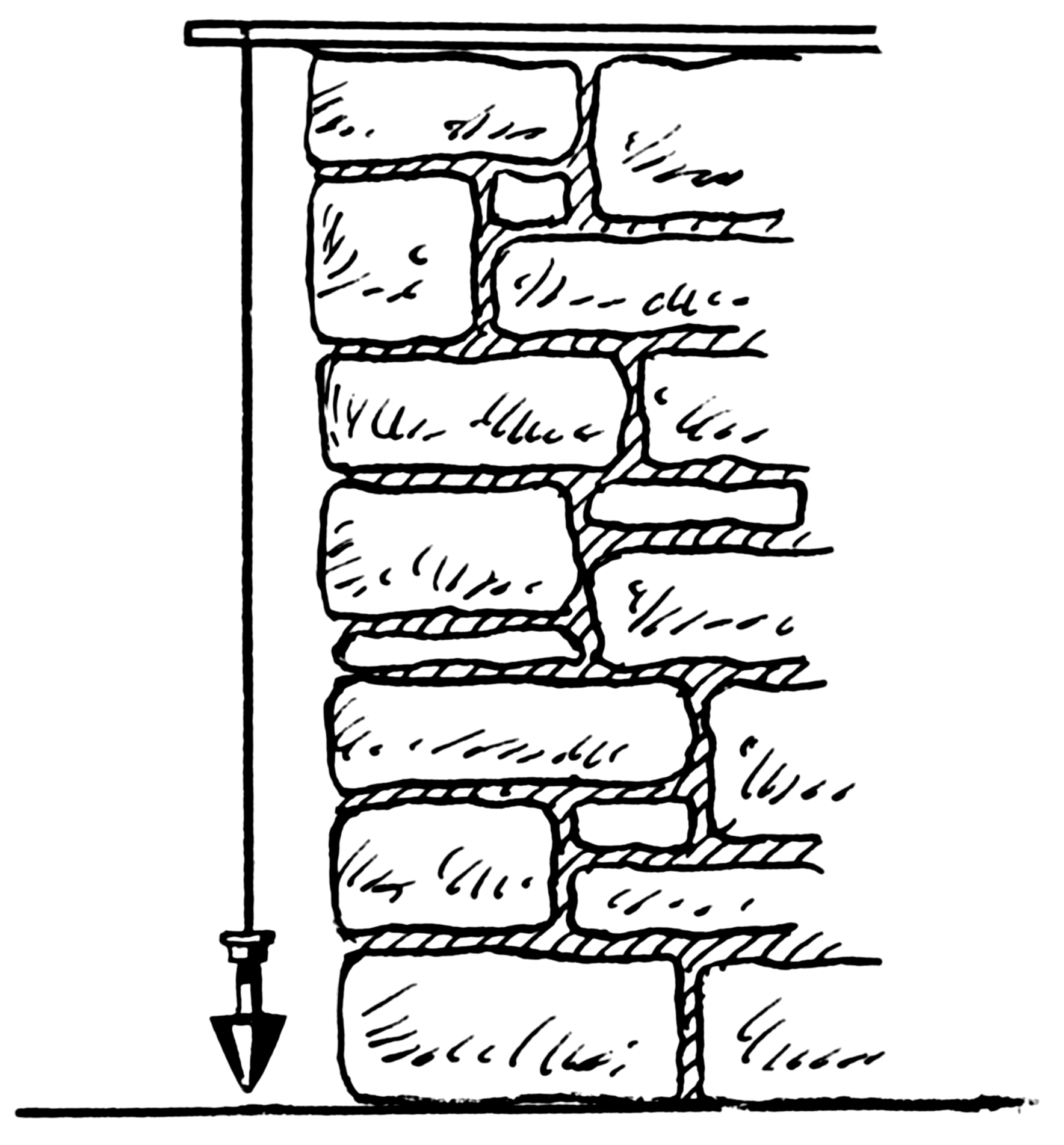 Line art drawing of plumb.